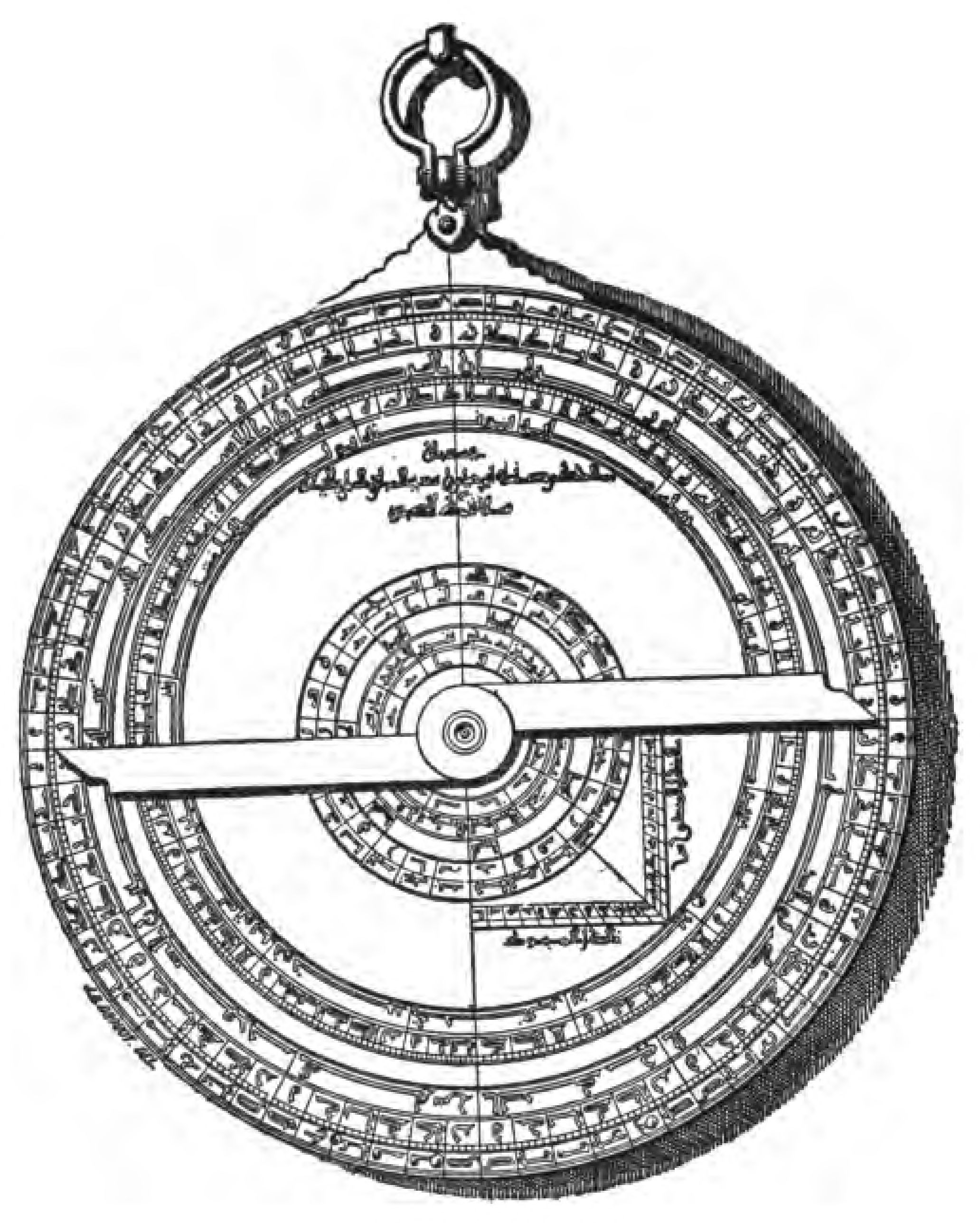 An Arabic astrolabe, found in The Story of the Barbary Corsairs' by Stanley Lane-Poole, published in 1890 by G.P. Putnam's Sons.